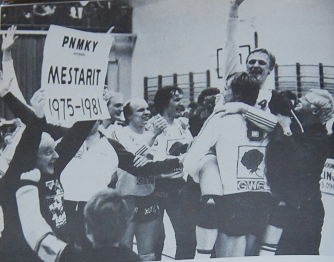 Finland volleyball team Pieksämäen NMKY won seven champion in league.